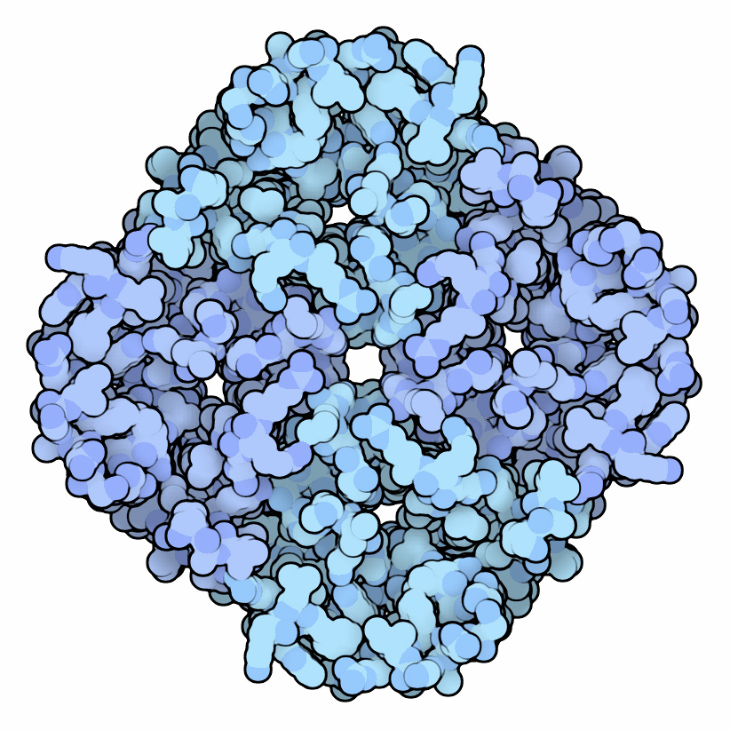 Space-fill drawing (top view) of the 4-subunit aquaporin water-transport membrane protein. Drawn by David Goodsell from PDB file 1FQY.